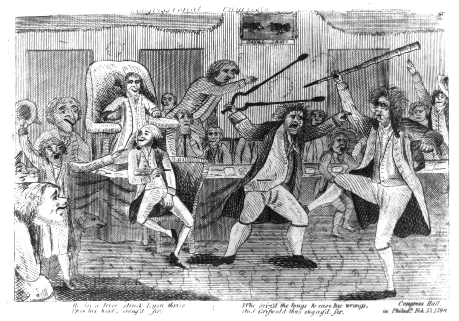 A crude portrayal of a fight on the floor of Congress between Vermont Representative Matthew Lyon and Roger Griswold of Connecticut. The row was originally prompted by an insulting reference to Lyon on Griswold's part. The interior of Congress Hall is shown, with the Speaker Jonathan Dayton and Clerk Jonathan W. Condy (both seated), Chaplain Ashbel Green (in profile on the left), and several others looking on, as Griswold, armed with a cane, kicks Lyon, who grasps the former's arm and raises a pair of fireplace tongs to strike him. Below are the verses: "He in a trice struck Lyon thrice / Upon his head, enrag'd sir, / Who seiz'd the tongs to ease his wrongs, / And Griswold thus engag'd, sir." This was a Congressional meeting, planned to remove William Blount, from office, in Tennessee, when this political encounter occurred. Because Lyon was ignoring Griswold, Griswold insulted Lyon, calling him a scoundrel. After Griswold called Lyon a scoundrel, Lyon spat in Griswold's face and their fighting started.